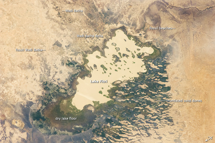 Annotated view of Lake Fitri